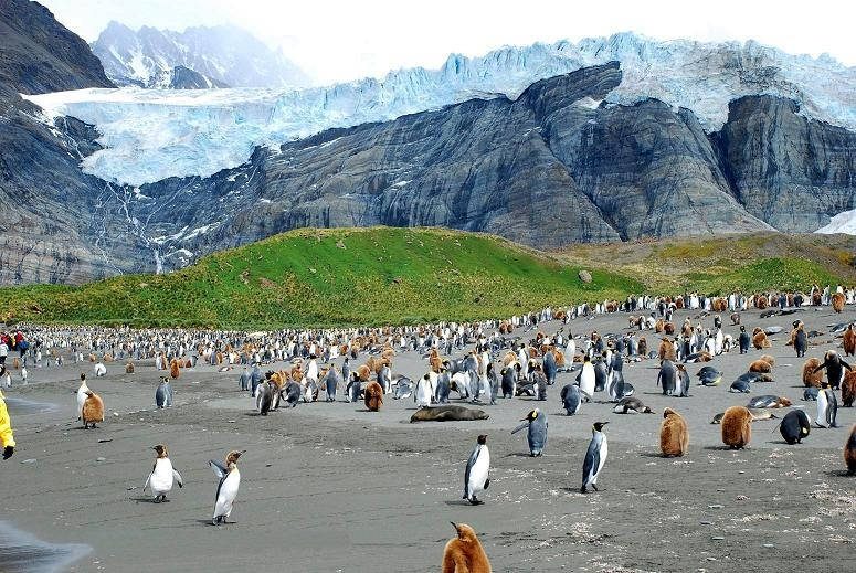 South Georgia in Antarctic waters with its myriads of penguins.